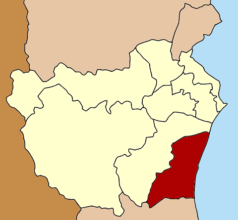 Map of Phetchaburi province, Thailand, highlighting Amphoe Cha-am.